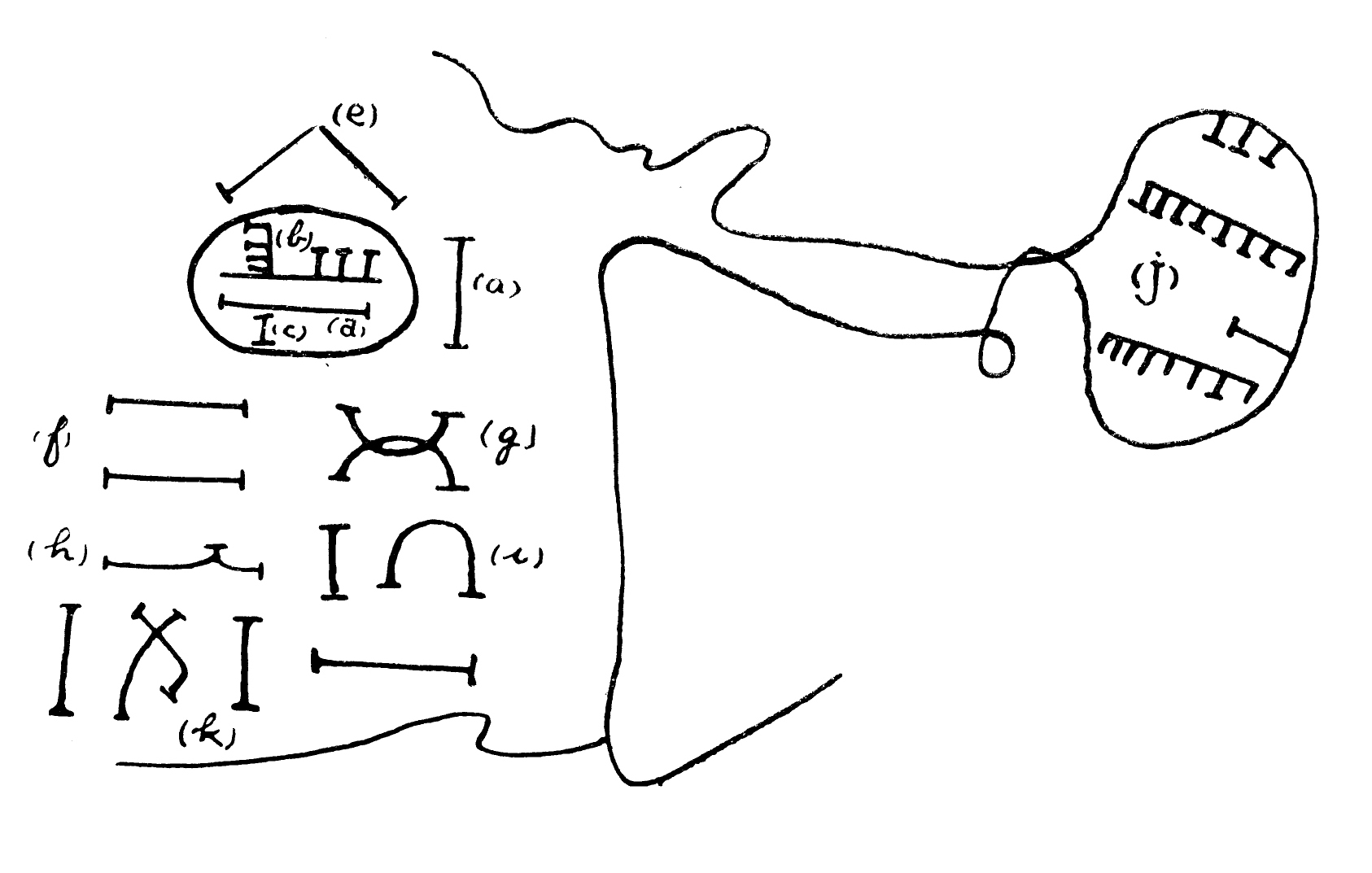 Nsibidi characters for an "ikpe" judgement as recorded by J. K. Macgregor.